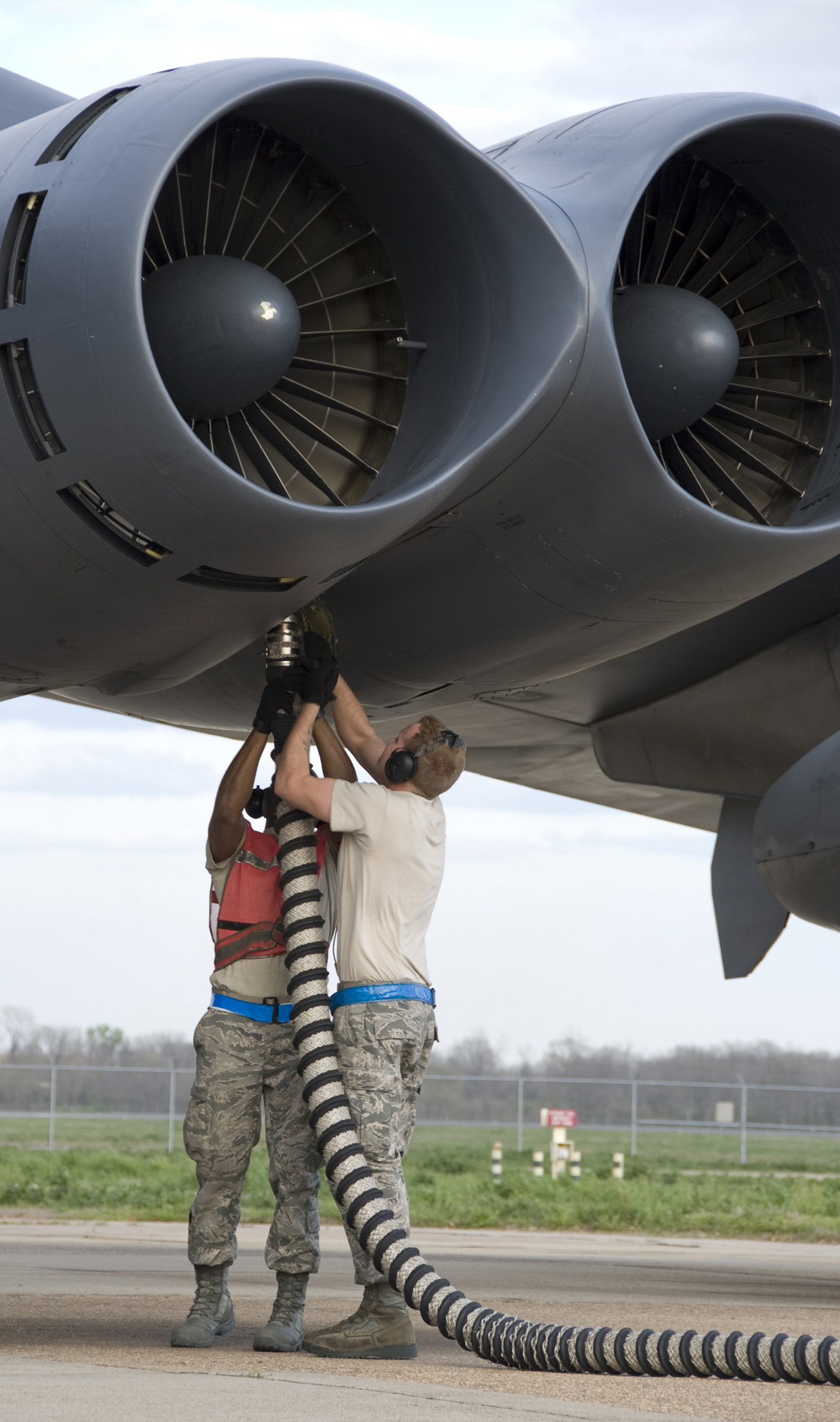 Airman 1st Class Kwann Peters (left) and Senior Airman Bryan Turner, both with the 20th Aircraft Maintenance Unit, disconnect an aircraft hose from a B-52H Stratofortress engine at Barksdale Air Force Base, La., on March 6, 2012. The aircraft hose and its attached apparatus are used to start only one engine, which in turn starts the rest of the engines on the aircraft.